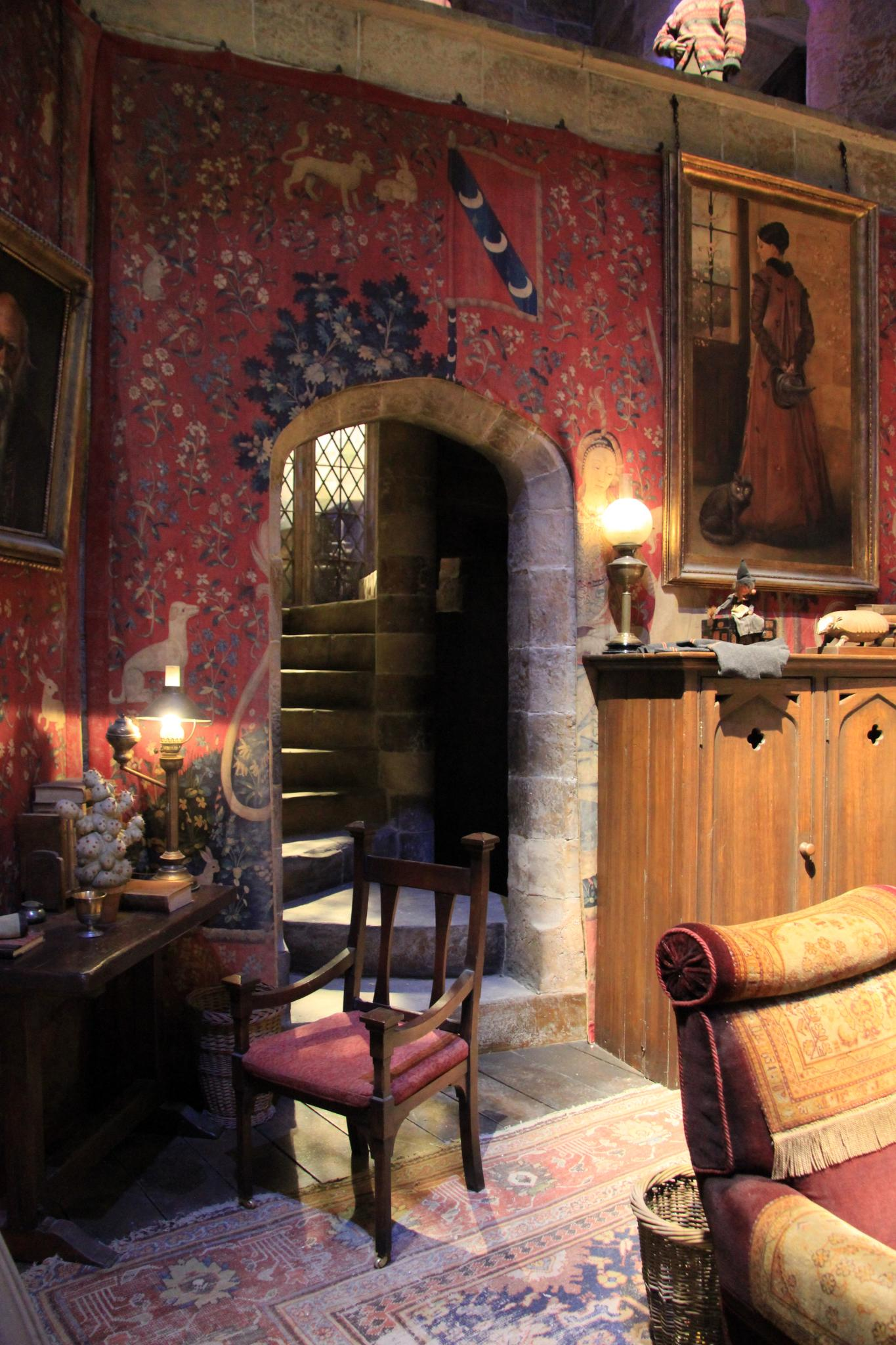 Warner Bros. Studio Tour London: The Making of Harry Potter.